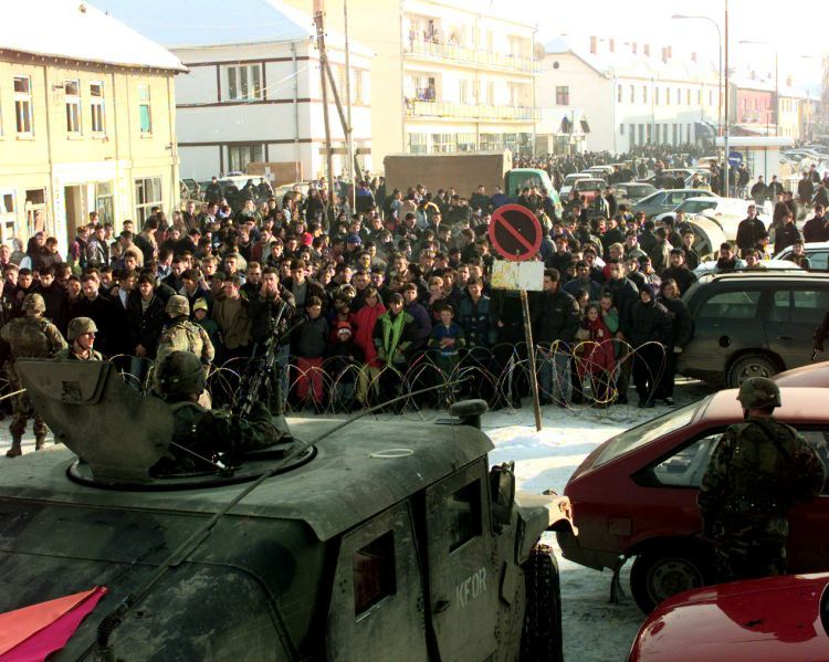 Soldiers of the 504th Parachute Infantry Regiment maintain crowd control as residents of Vitina, Kosovo, protest in the streets on Jan. 9, 2000. The protesters were demanding the release of local Albanians held in custody for questioning. The soldiers are attached to the 82nd Airborne Division, Fort Bragg, N.C., and are deployed to Kosovo as part of KFOR. KFOR is the NATO-led, international military force in Kosovo on the peacekeeping mission known as Operation Joint Guardian.